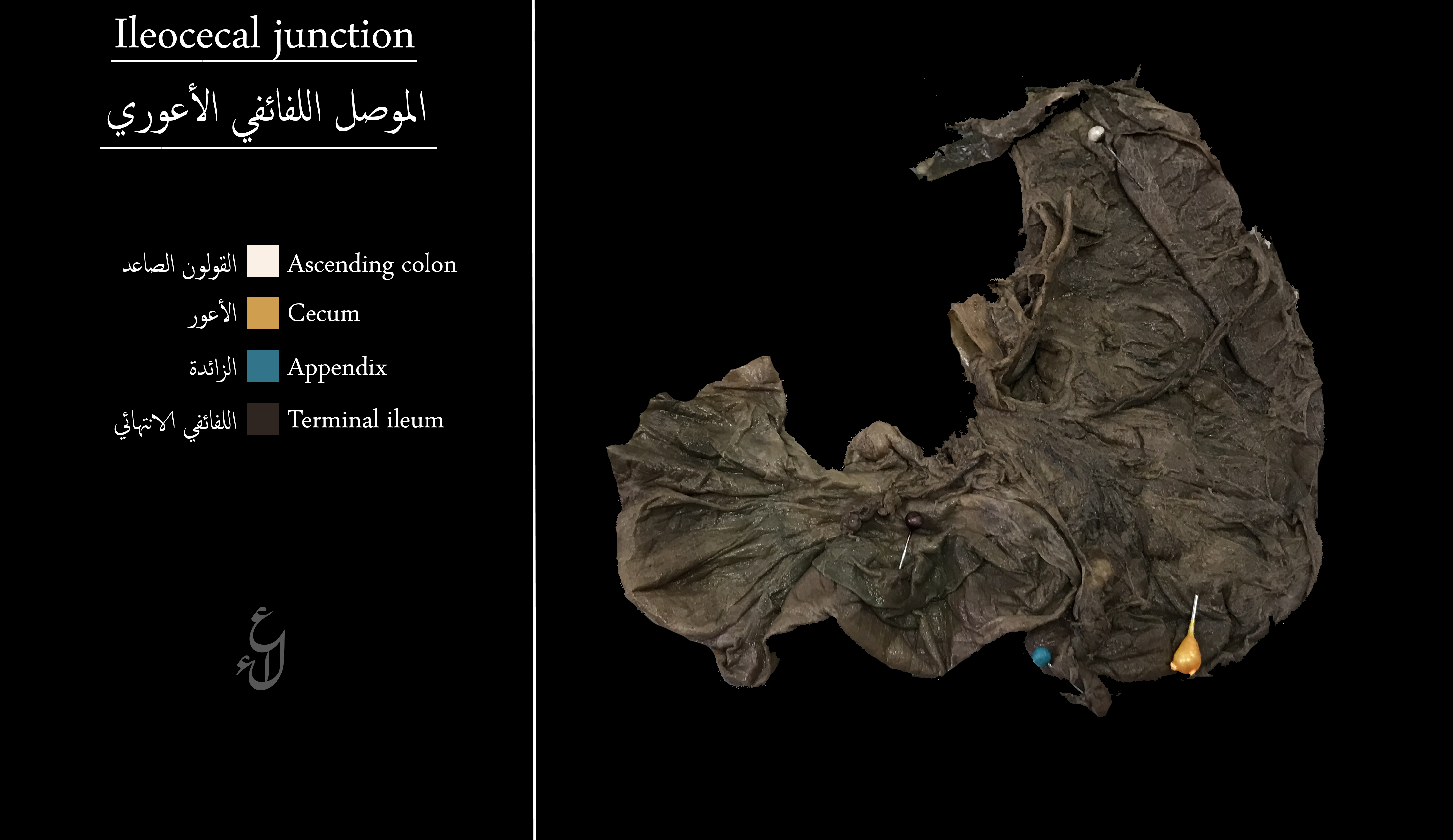 Ileocecal junction in human body